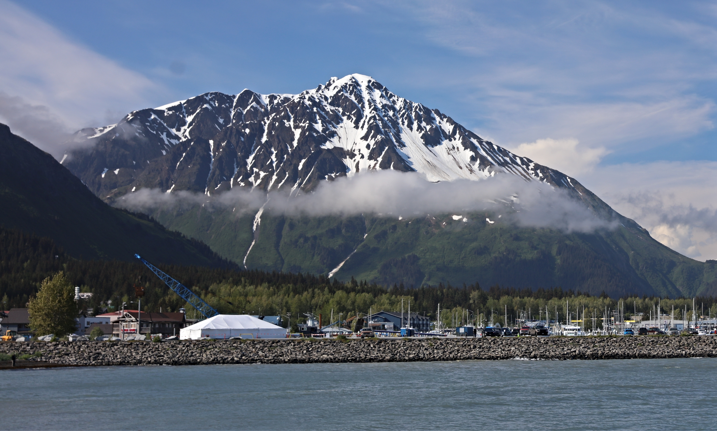 Resurrection Peaks from Seward, AK